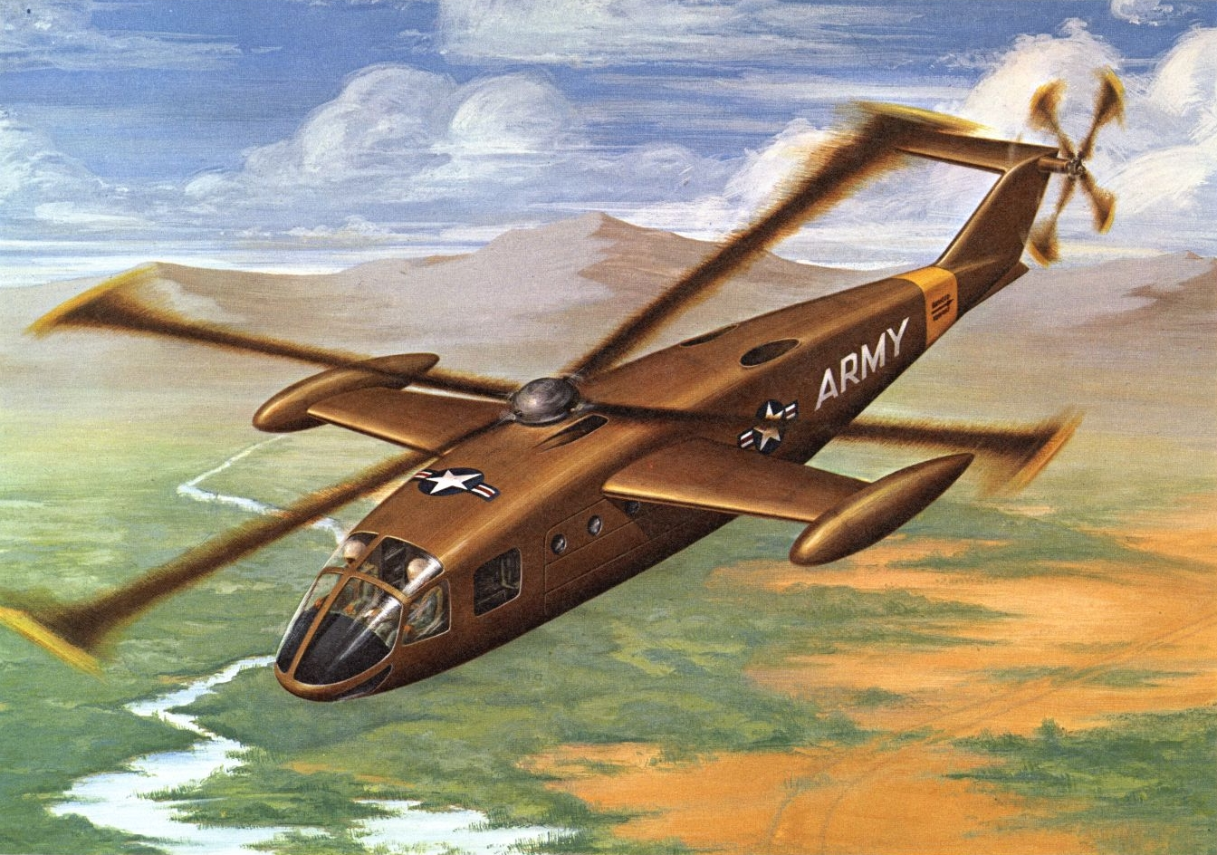 Boeing Winged UTTAS concept, designed before the Army defined its requirement for the proposed utility aircraft to be conventional-type helicopter instead of fixed-wing one